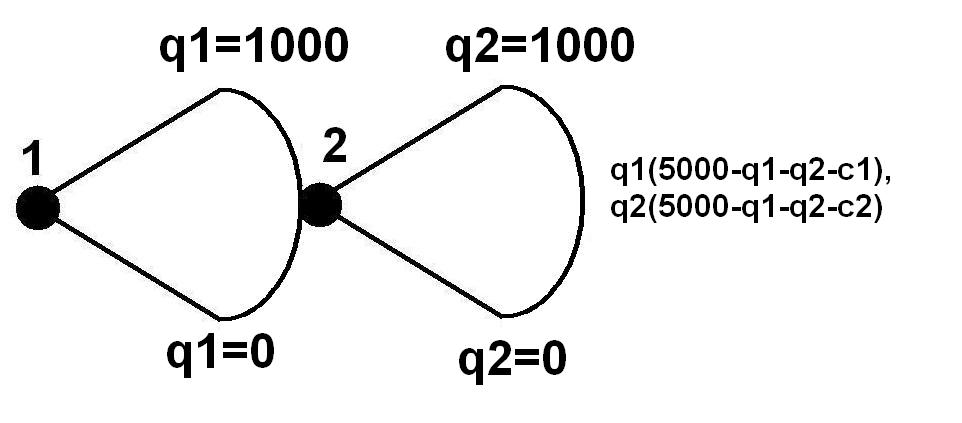 Extensive form game 1A Treborbassett 00:13, 14 Mar 2005 (UTC)